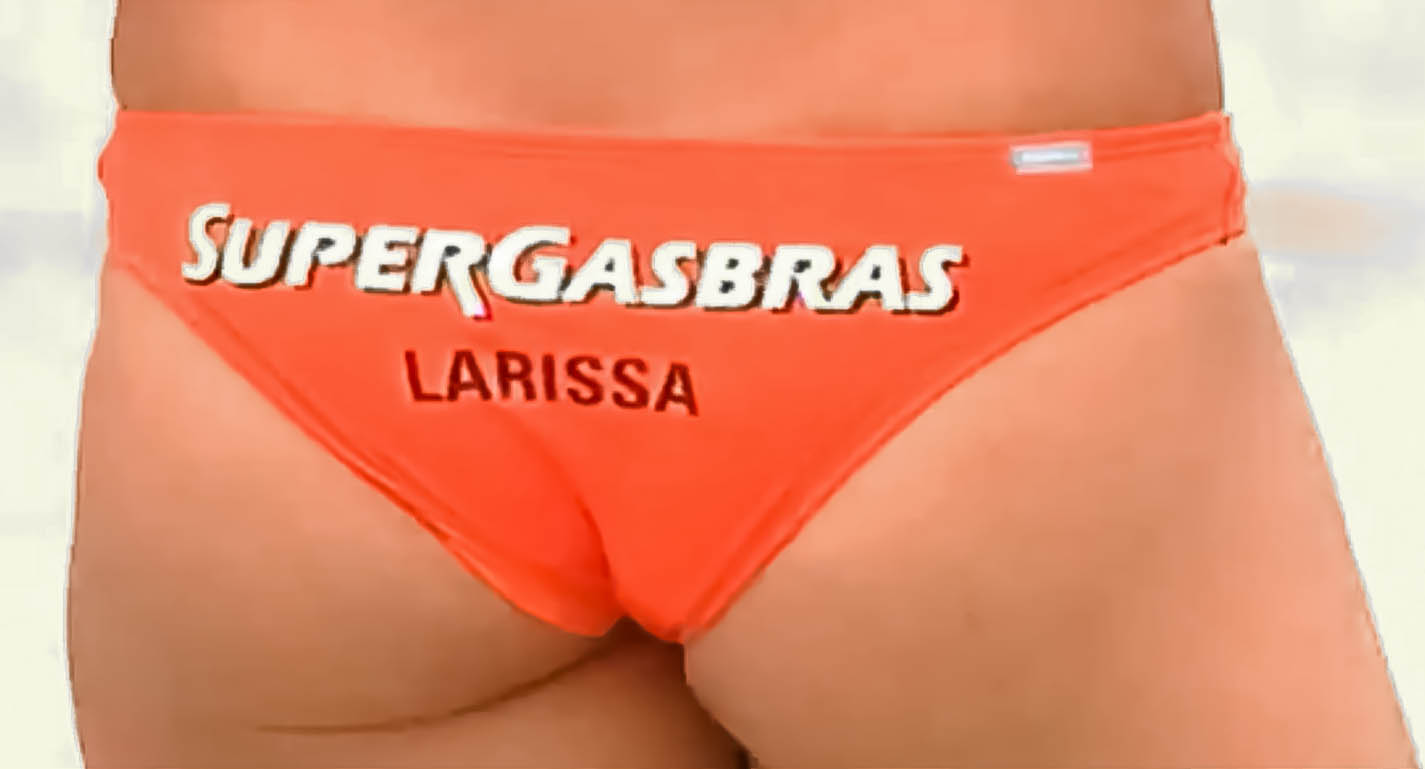 SUPERGASBRAS'S LOGO AND NAMETAG ON THE SPORT BRIEF OF LARISSA FRANCA